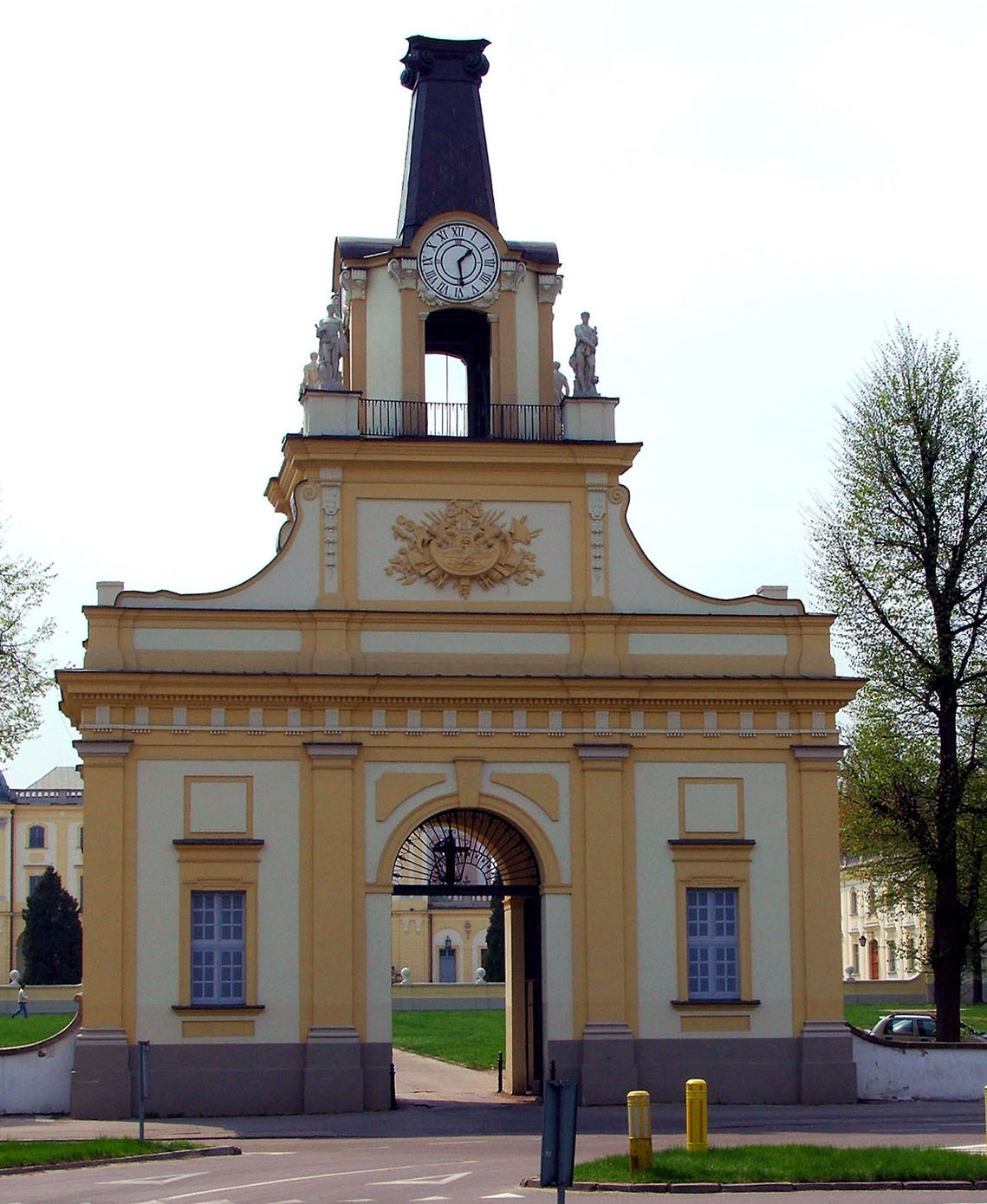 Main gate of the Branicki Palace in Białystok.